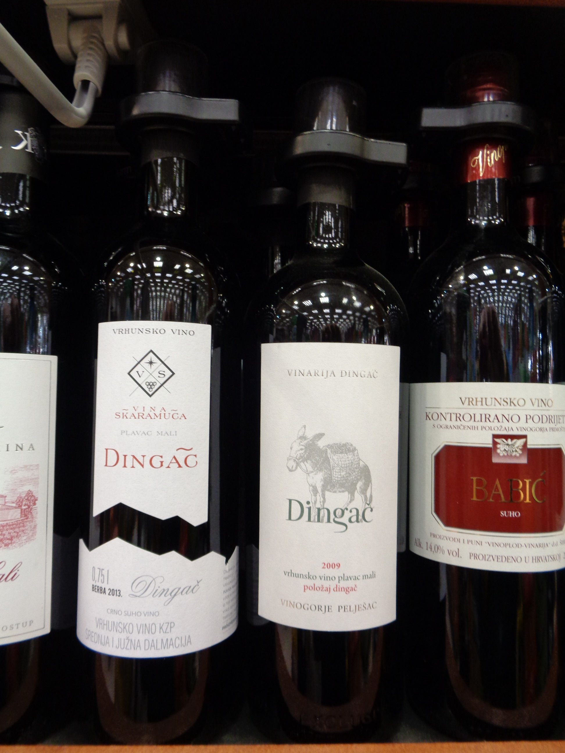 Bottles of Dingač wine, autochthonous superior quality red wine, produced in Dingač area, Dubrovnik-Neretva County, southern Croatia